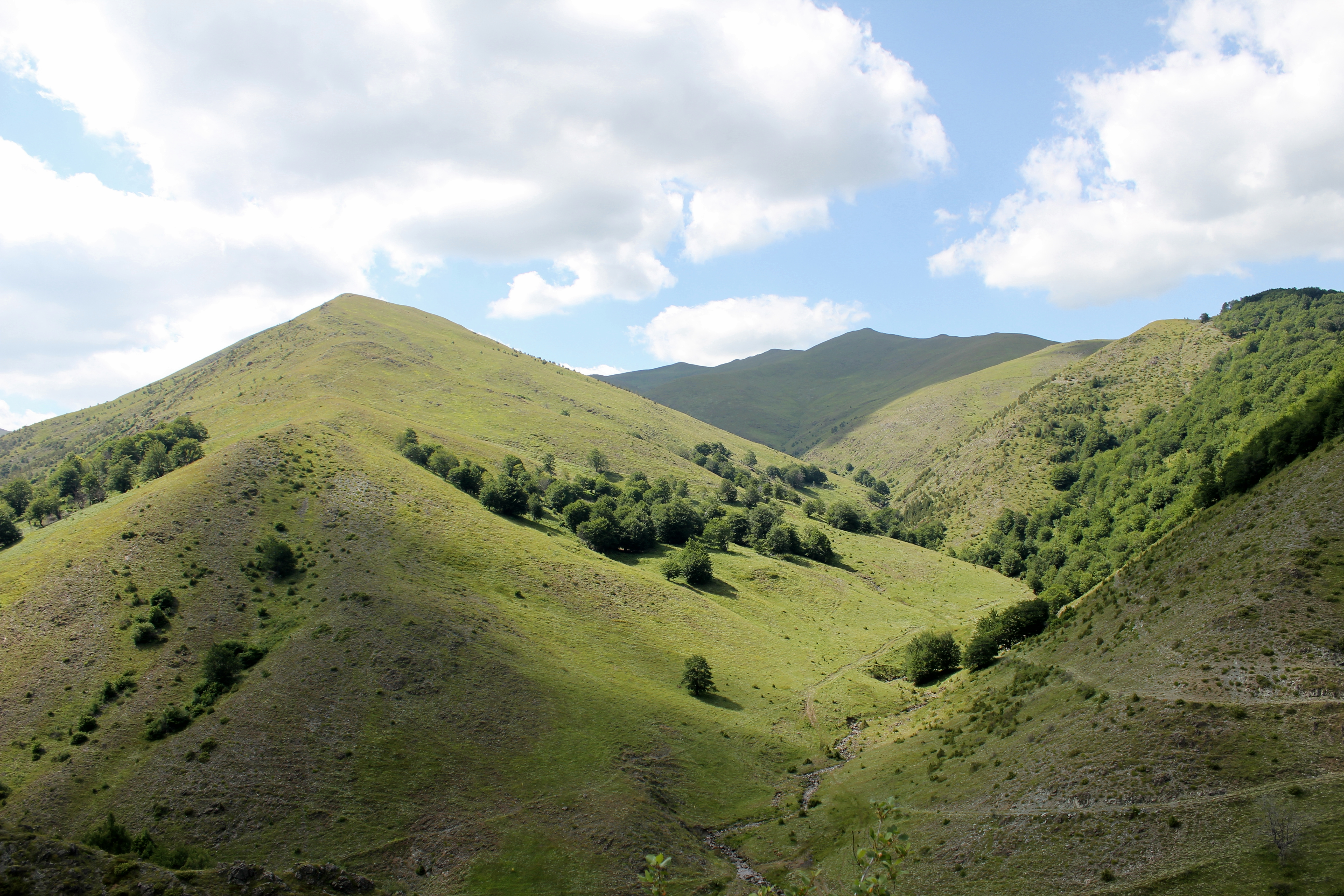 Bajgora is a village located in the municipality of Mitrovica, Kosovo. It is located in the south of the Kopaonik range and it is just a few kilometers south from the Barjak peak rising up to 1789 m high.